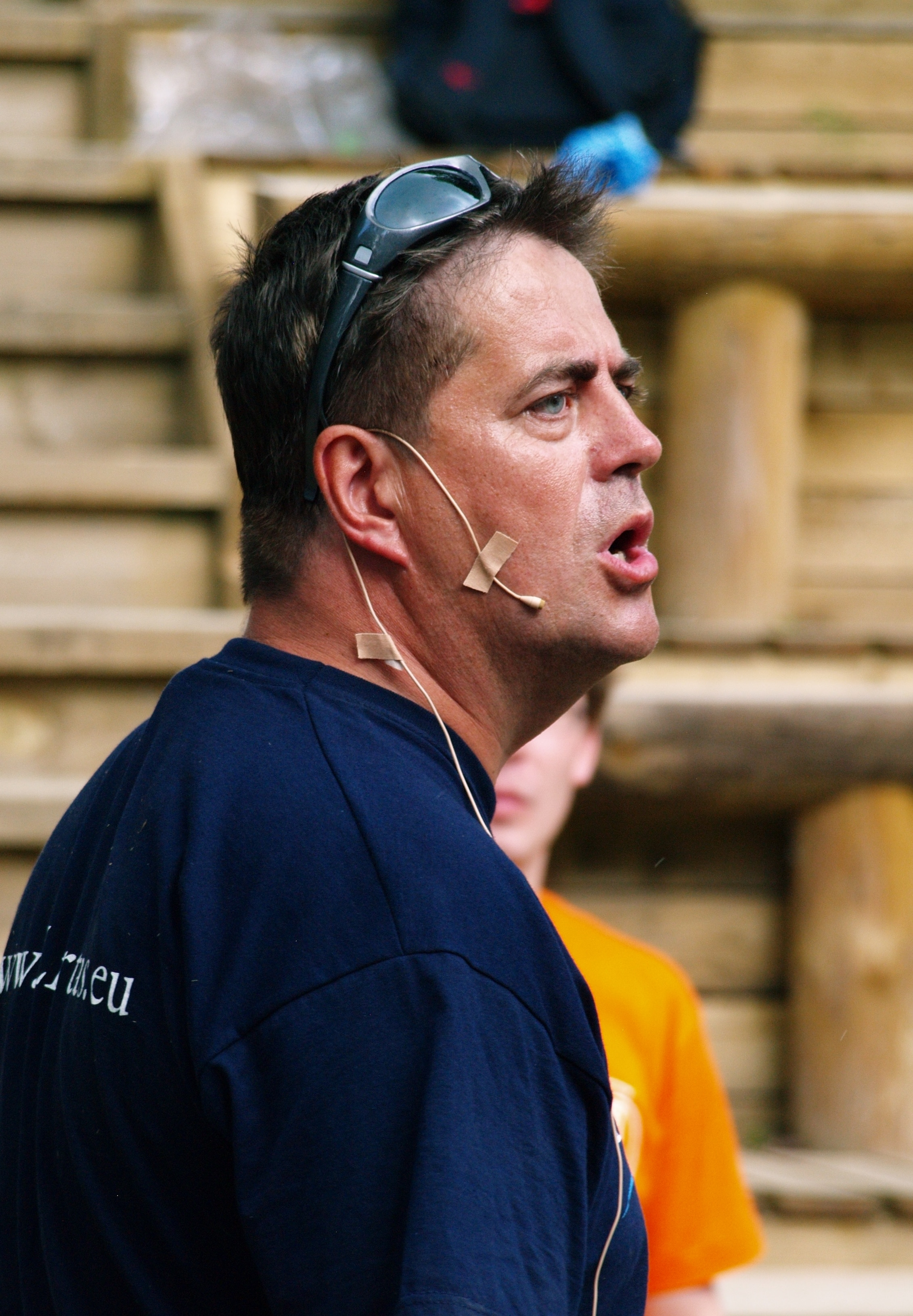 Mati Kõrts is an estonian opera singer.